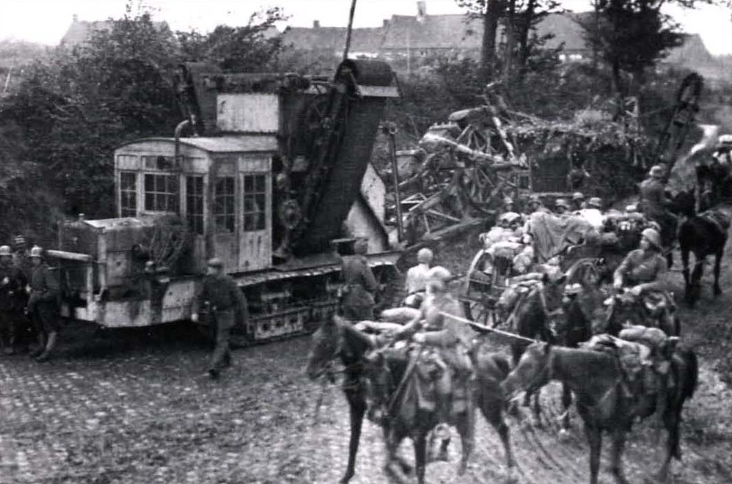 German World War I military trencher on the A7V chassis with two conveyor belts to dispose of spoil.